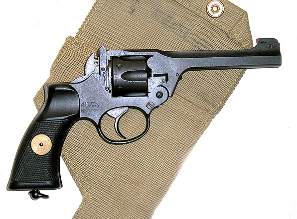 Enfield No. 2 Mk I* revolver produced by Albion Motors